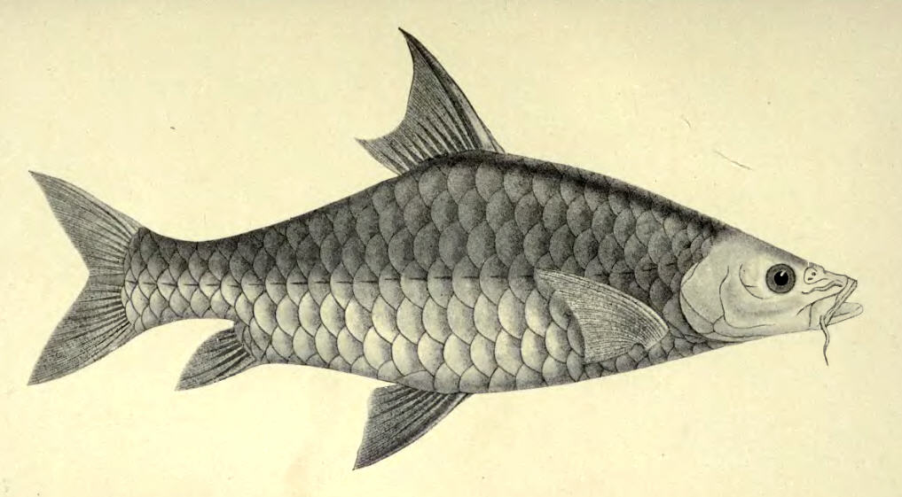 Barbus tor = Tor tor (Hamilton, 1822) from the Bhavani river